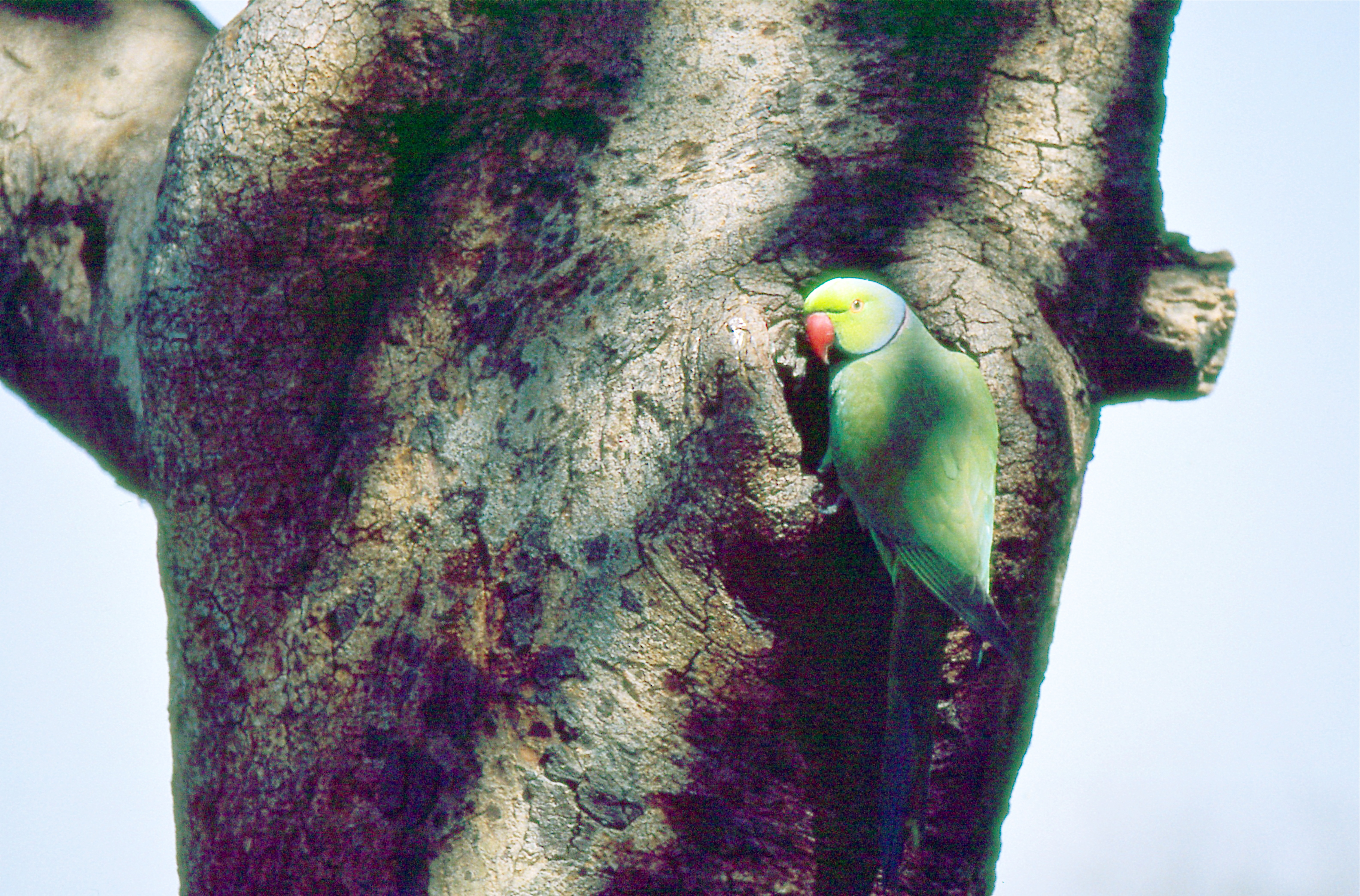 Ranthambore NP, Rajasthan, INDIA Scanned Slide from March 1991